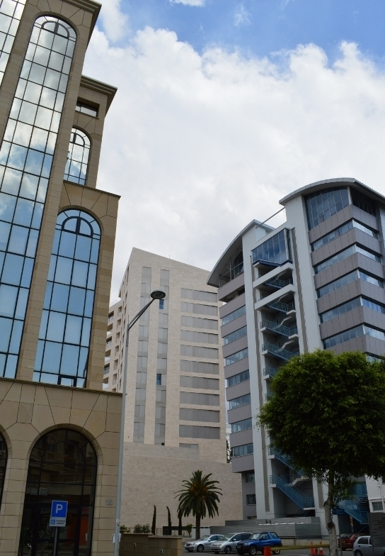 Themistokli Dervi Avenue Nicosia financial sector buildings background Republic of Cyprus Spring